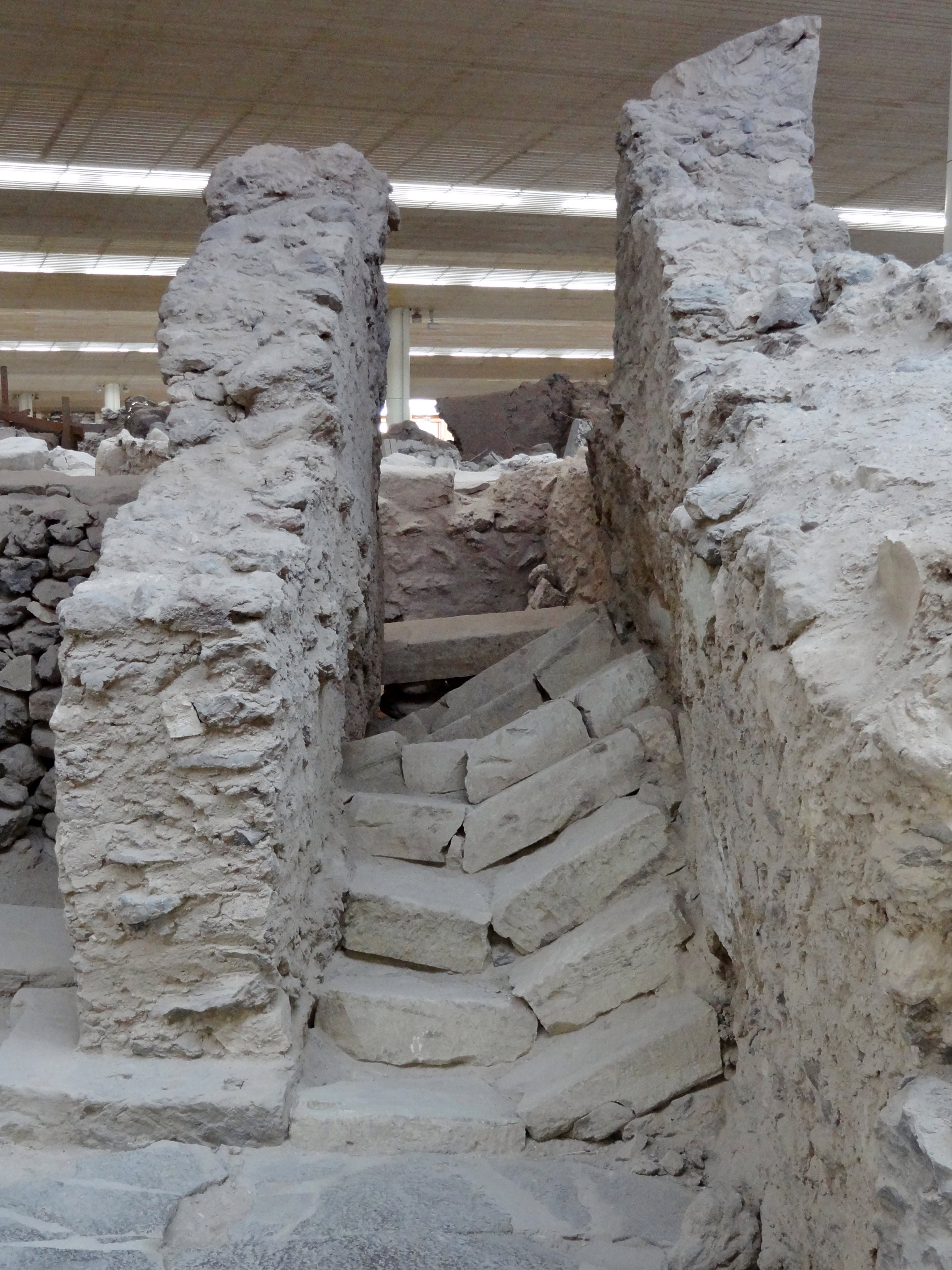 Stair destroyed by an earthquake in the beginning of the Minoan eruption, from the bronze age town Akrotiri on the Greek island Santorini, found in the Delta Complex of the town.